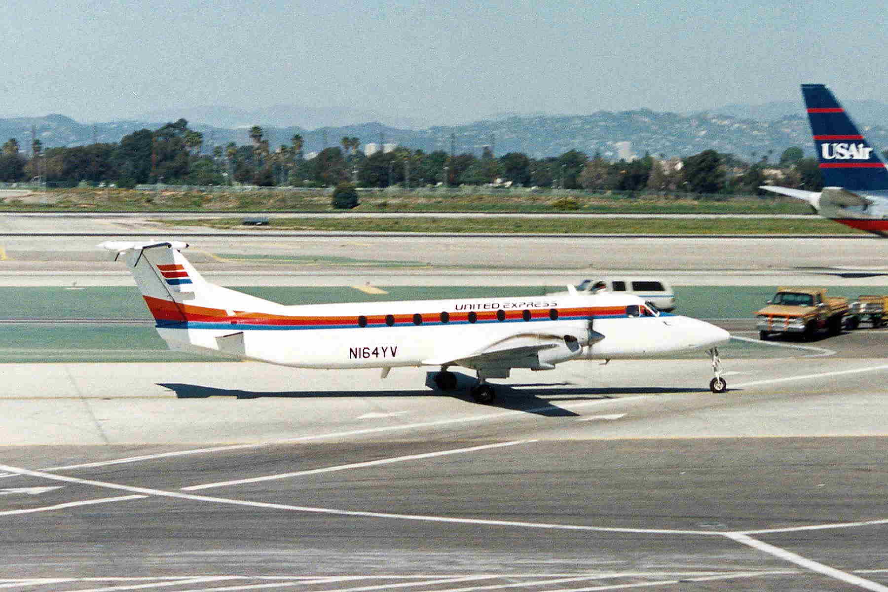 Operated for United Express by Mountain West Airlines.